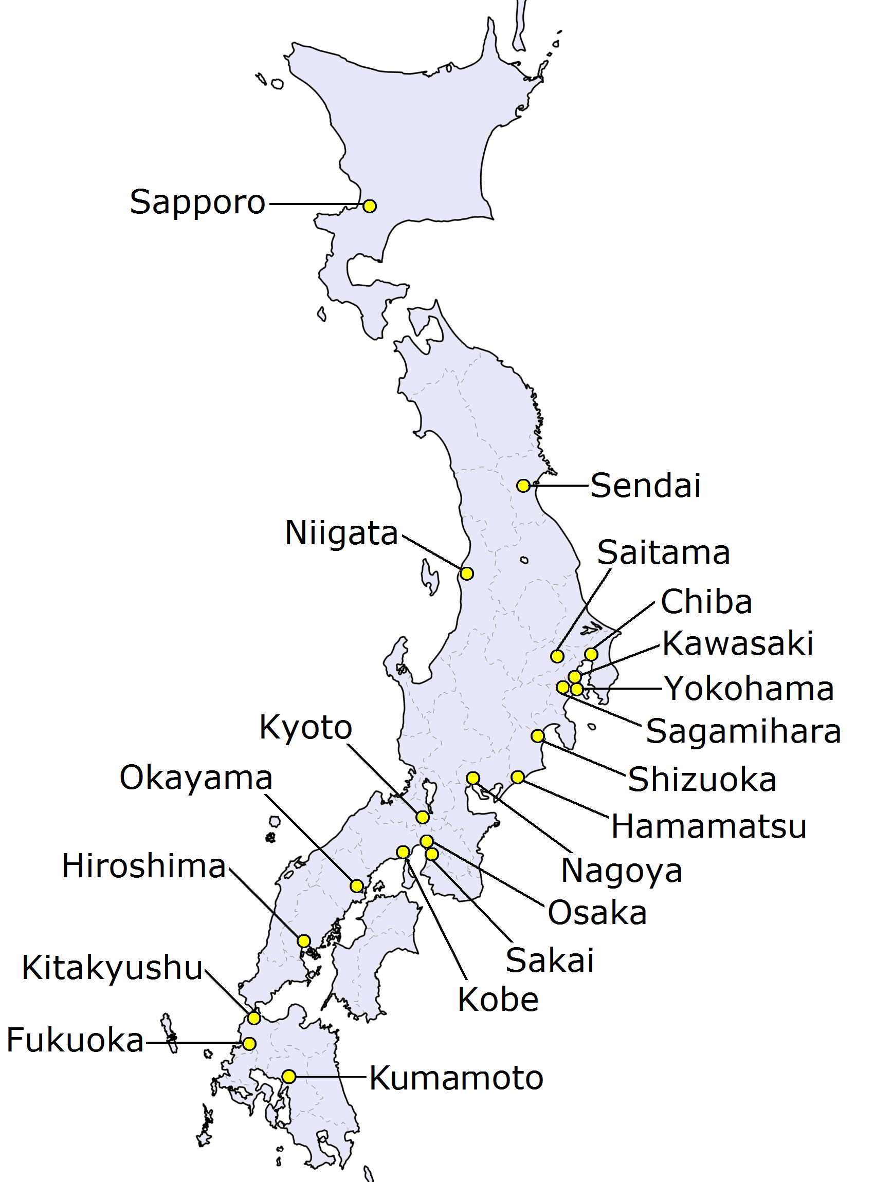 Government ordinance-designed major cities (政令指定都市), JAPAN